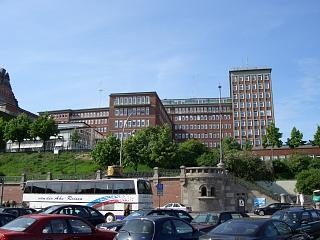 Head office of the Federal Maritime and Hydrographic Agency of Germany (BSH) Fotograf/Photograph: Seebeer Datum/Date: 19.05.2005